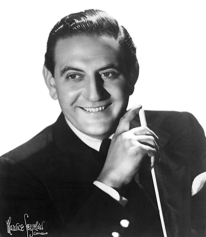 Photo of band leader Guy Lombardo.